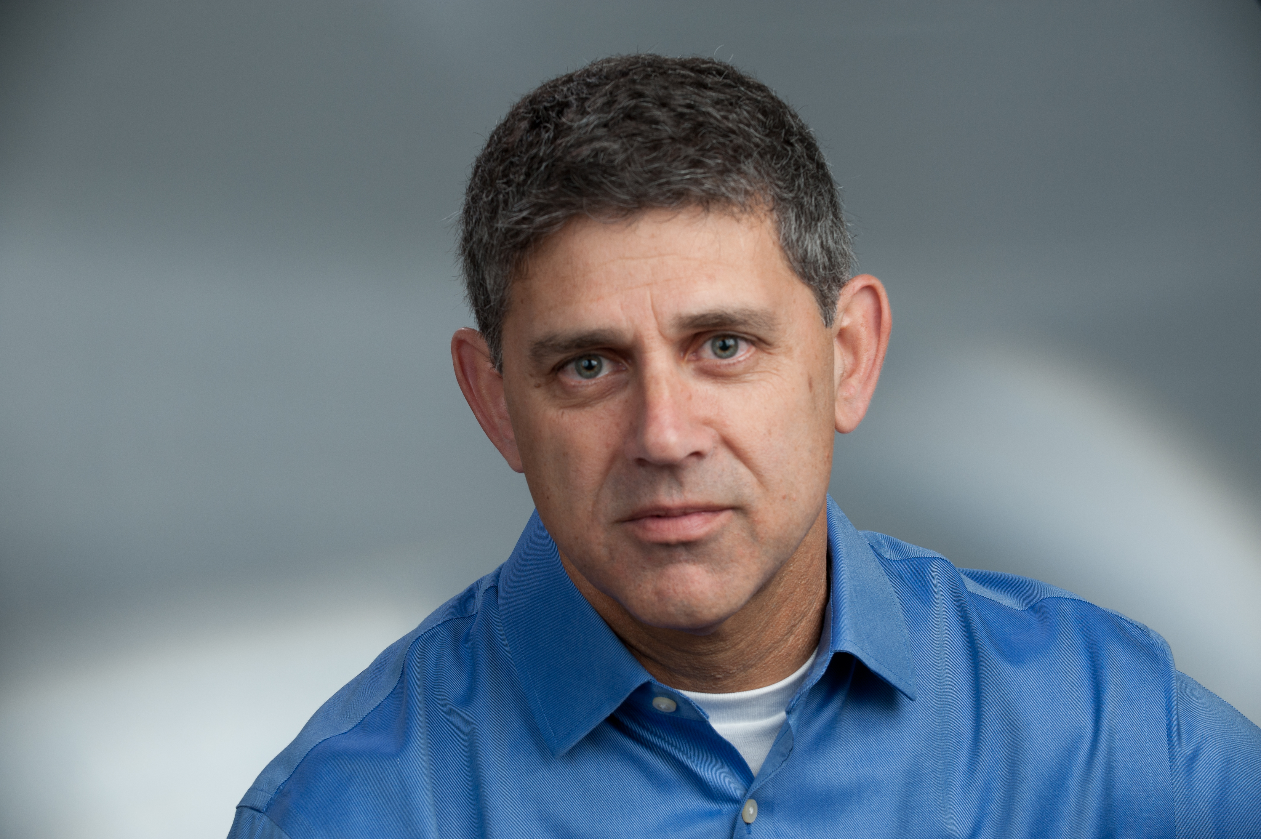 Photo of Conduit CEO Ronen Shilo